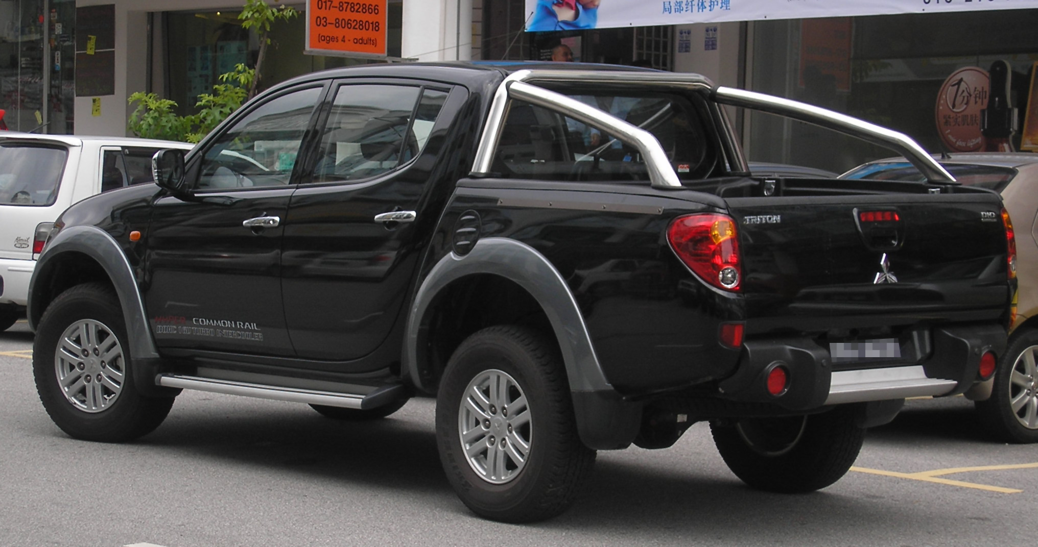 Rear quarter view of a first generation Mitsubishi Triton (essentially a fourth generation Mitsubishi L200), in Serdang, Selangor, Malaysia.